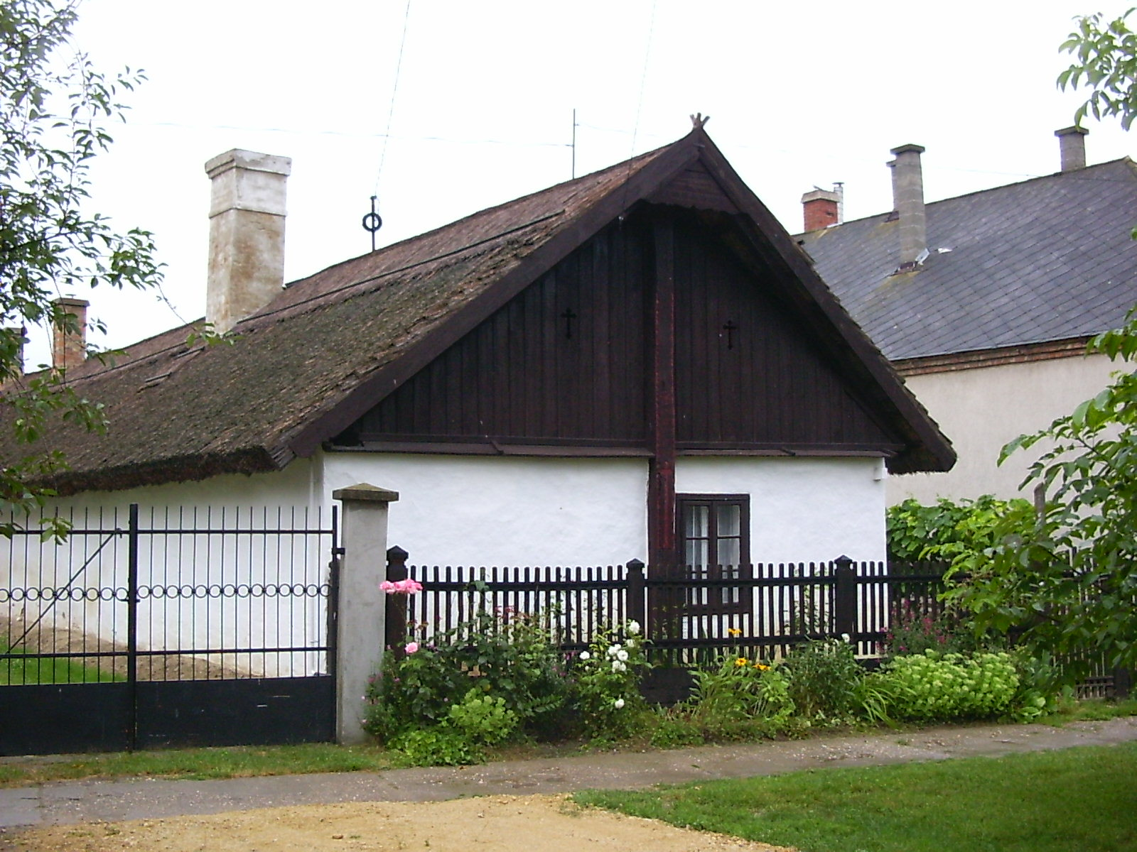 Nyalka, old home of a peasant family This is a photo of a monument in Hungary, Identifier: 4624